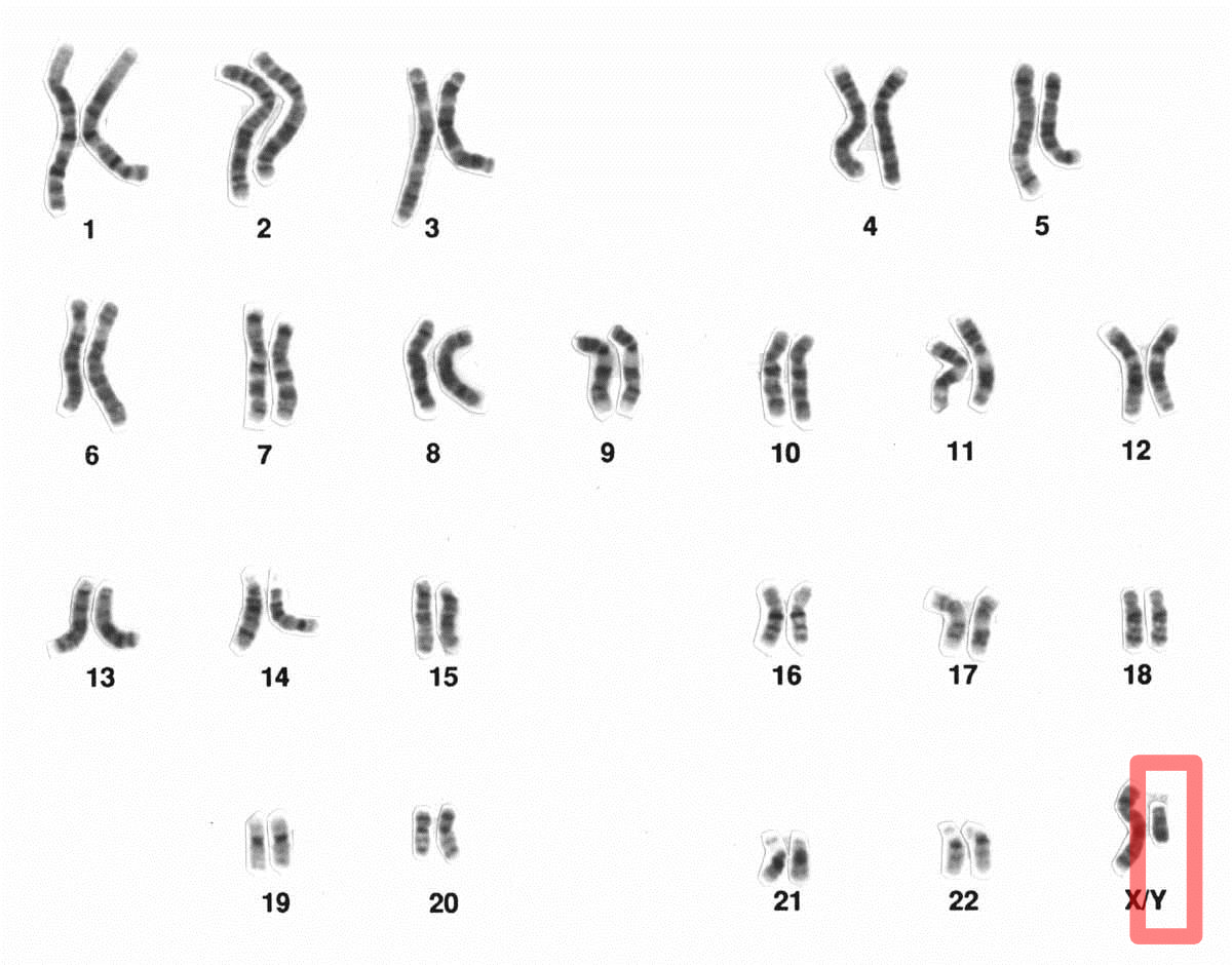 Human male Karyotype after G-banding. Y chromosome highlighted